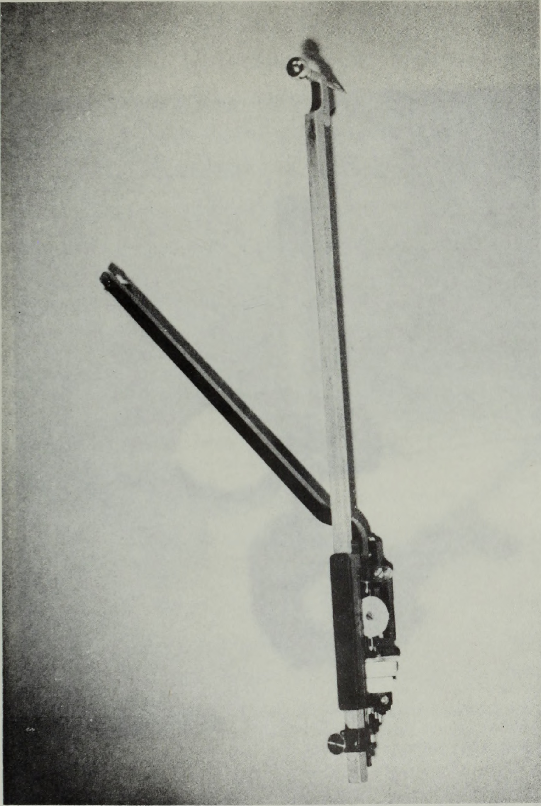 Title: Direct shear testing of marine sediments. Year: 1971 (1970s) Authors: Berg, John Stoddard. Subjects: Oceanography Publisher: Monterey, California: U. S. Naval Postgraduate School Text Appearing Before Image: ' Text Appearing After Image: 1 to H CD •H 39